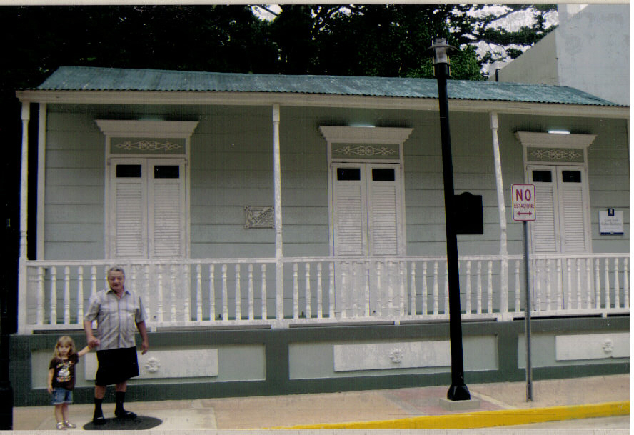 Tony (The Marine) Santiago with granddaughter, Nina, posing in front of the house of Dr. José Celso Barbosa in Bayamón, Puerto Rico